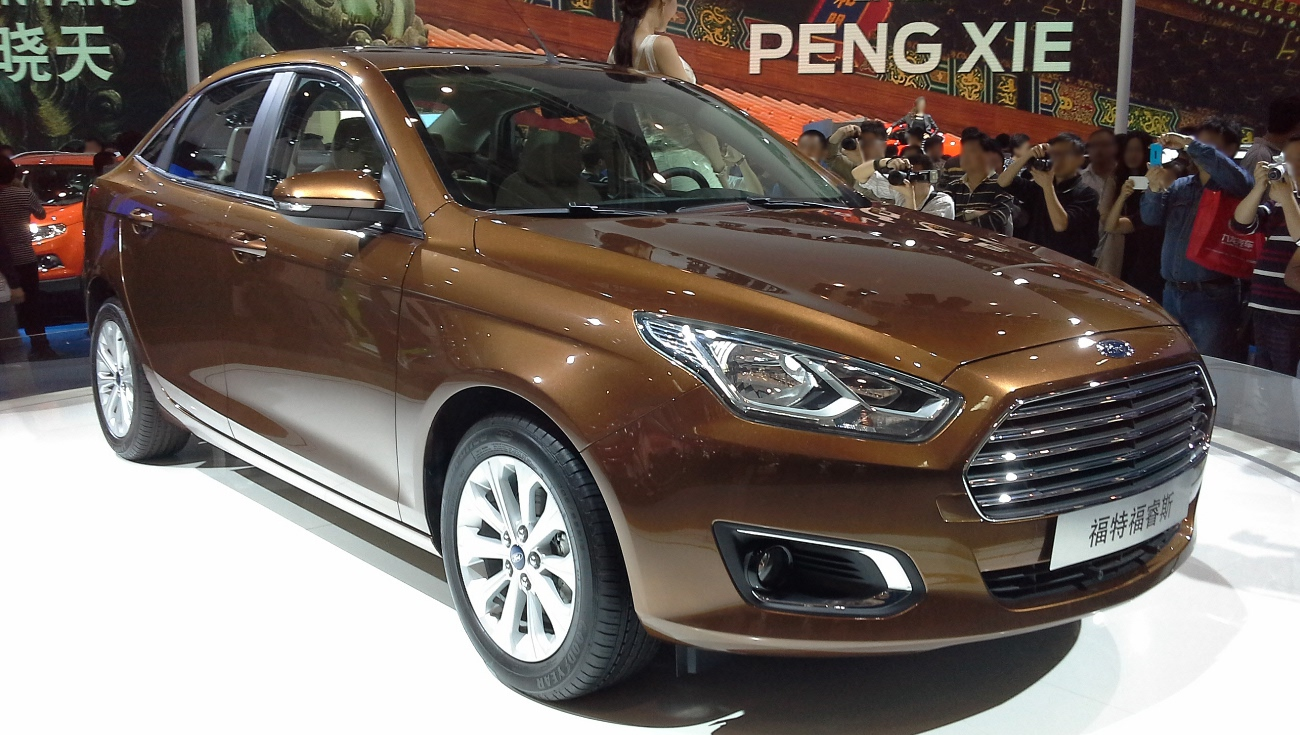 Ford Escort CN photographed at the Auto China 2014, Beijing, China.